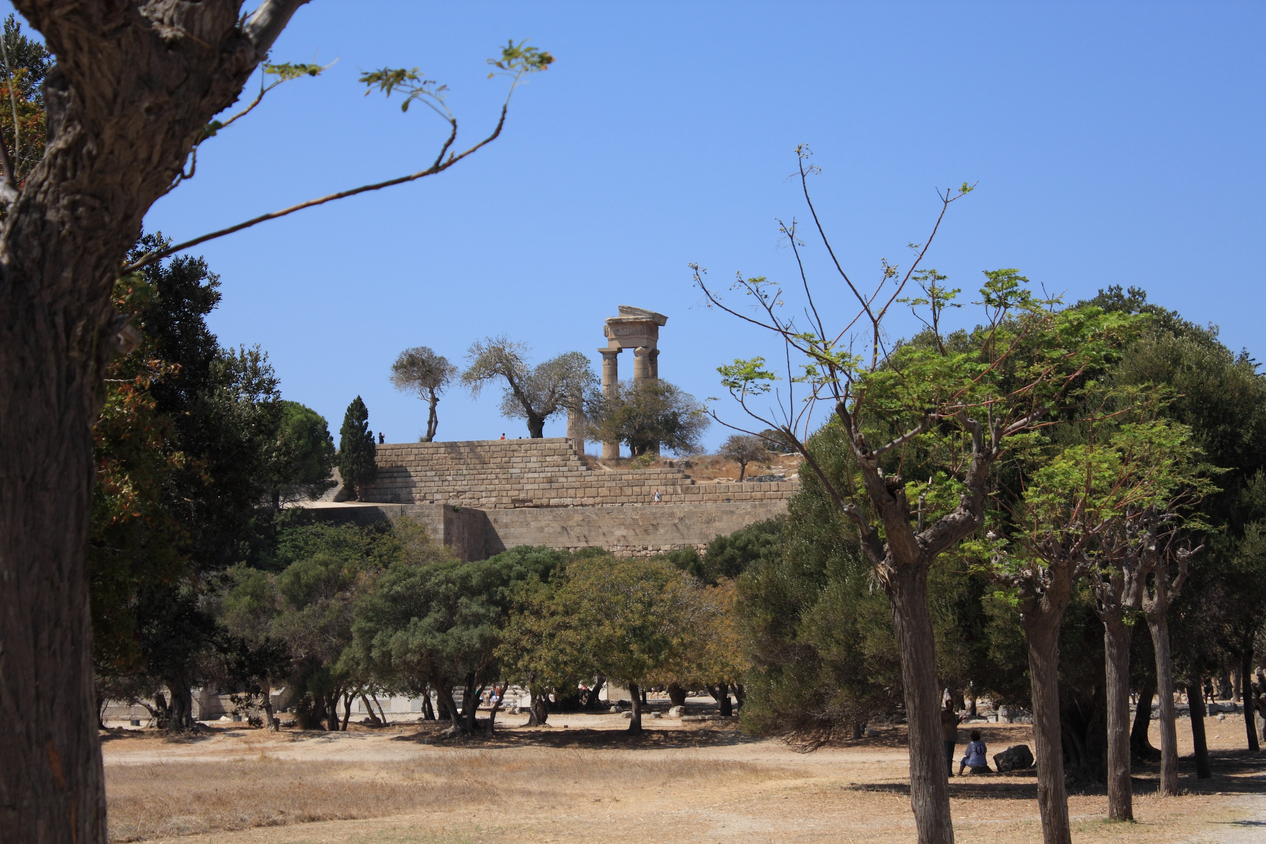 Acropolis of Rhodes seen from the park.